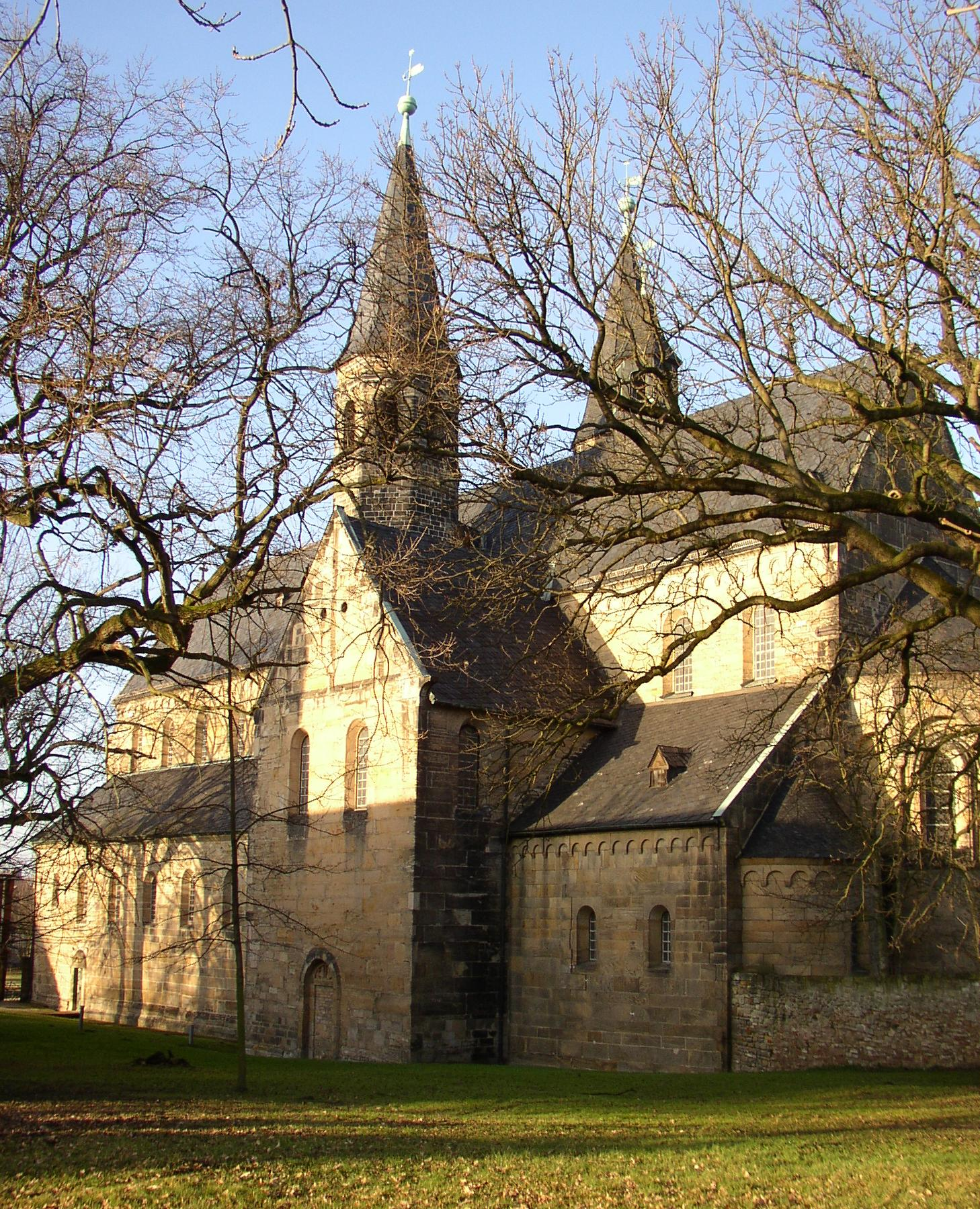 Romanesque church Hamersleben in Saxony-Anhalt, Germany